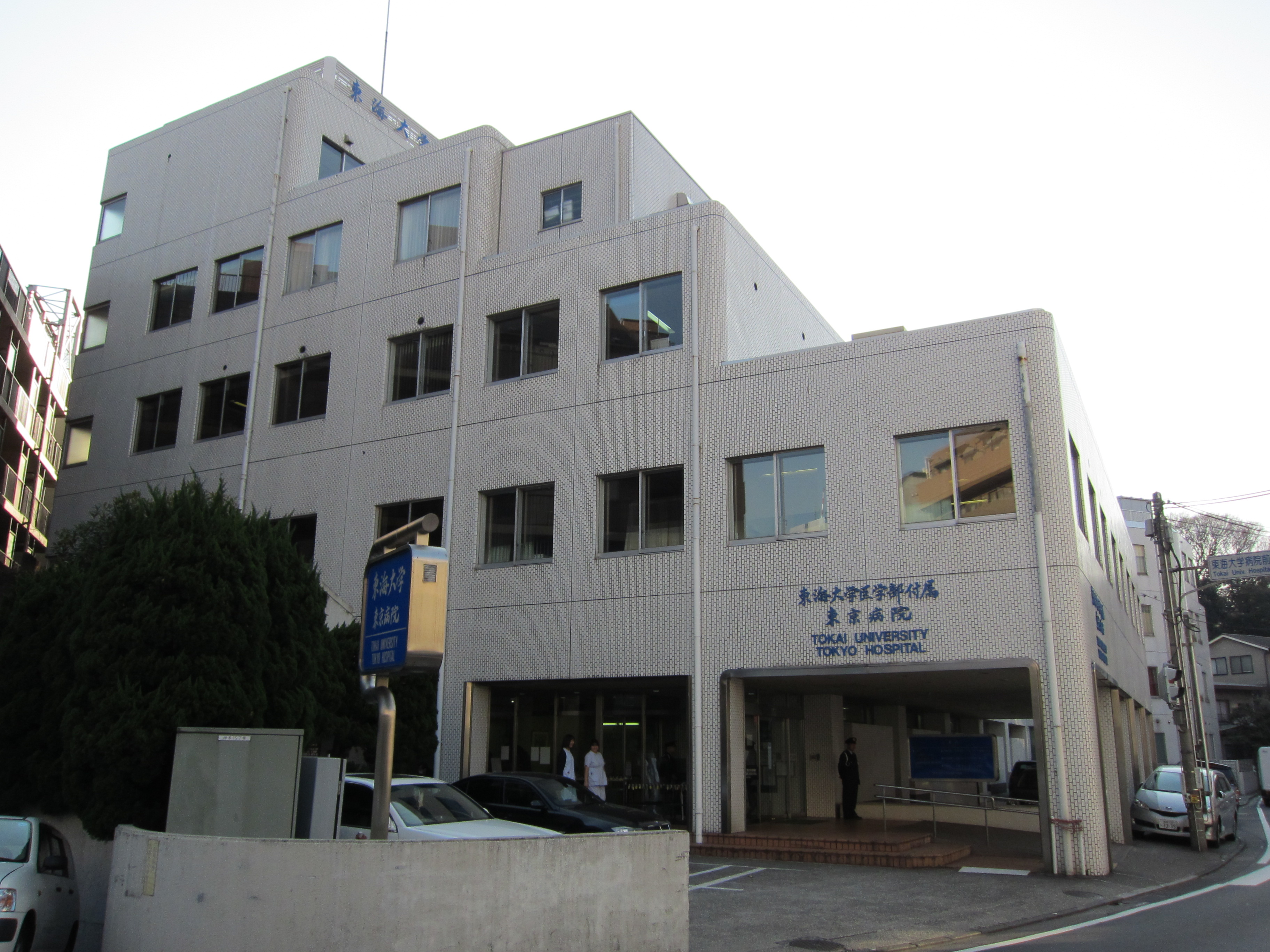 Tokai University Tokyo Hospital